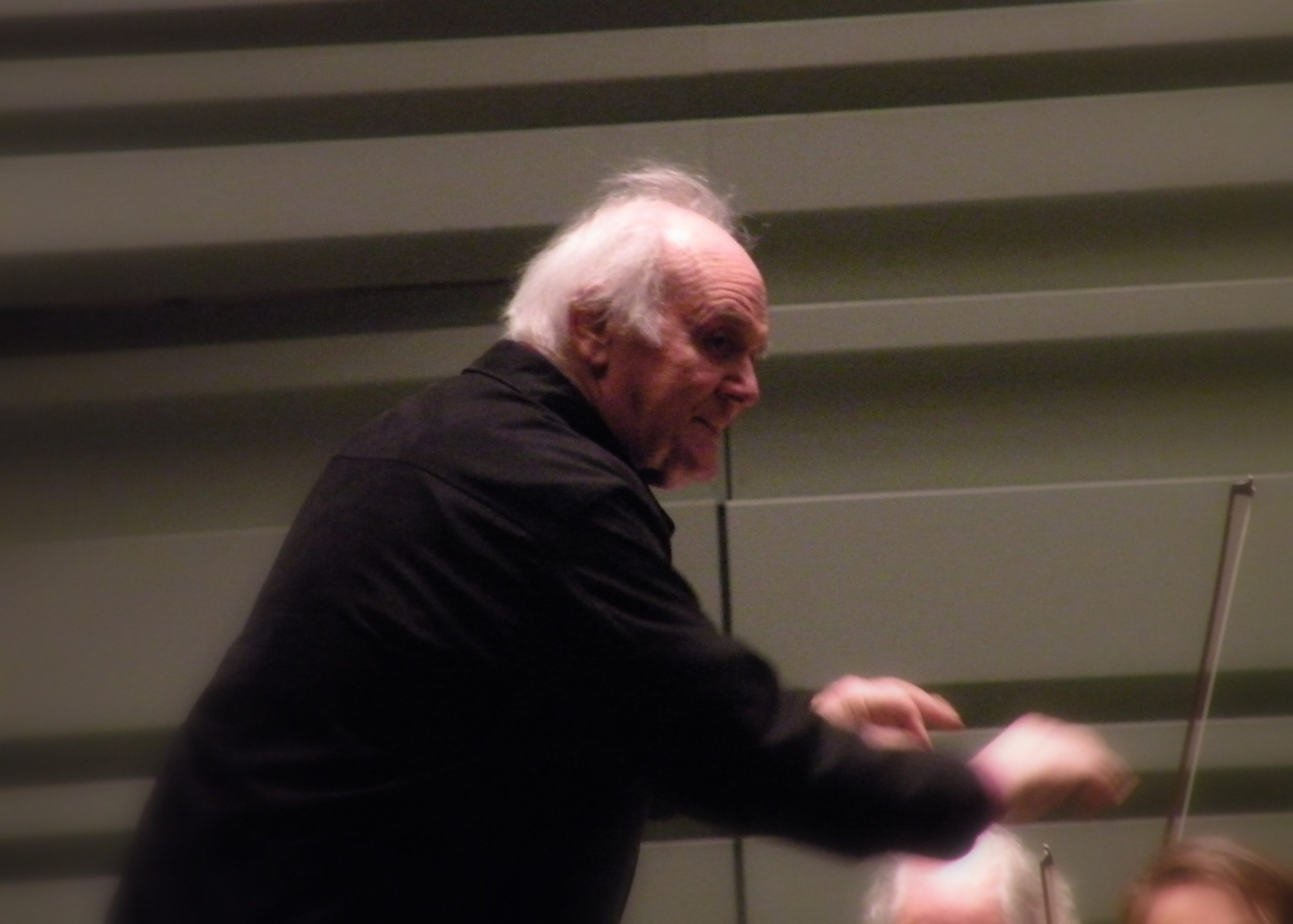 The swiss conductor Michel Corboz, on 30 January 2009 during La Folle Journée in Nantes.